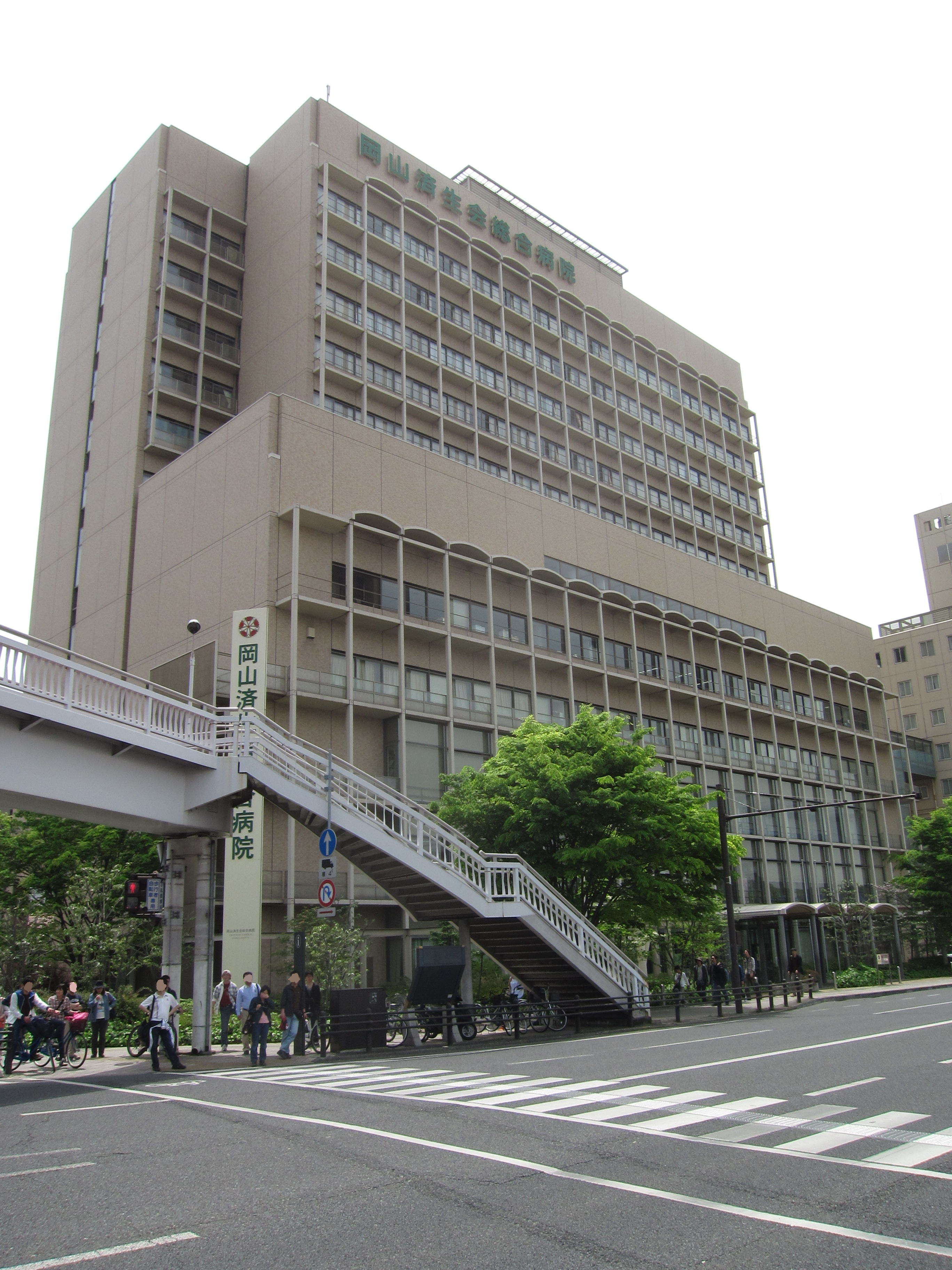 Outpatient clinic of Okayama Saiseikai General Hospital